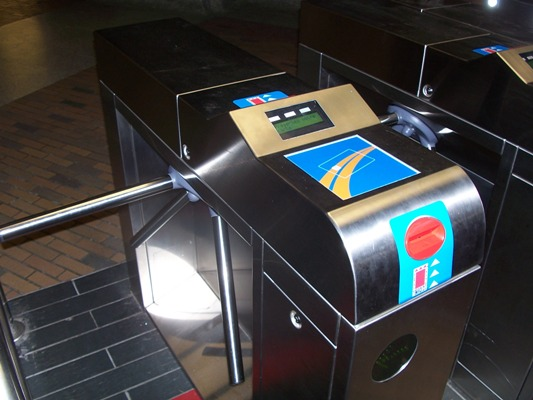 New turnstiles with OPUS reader at Bonaventure Metro Station in Montreal